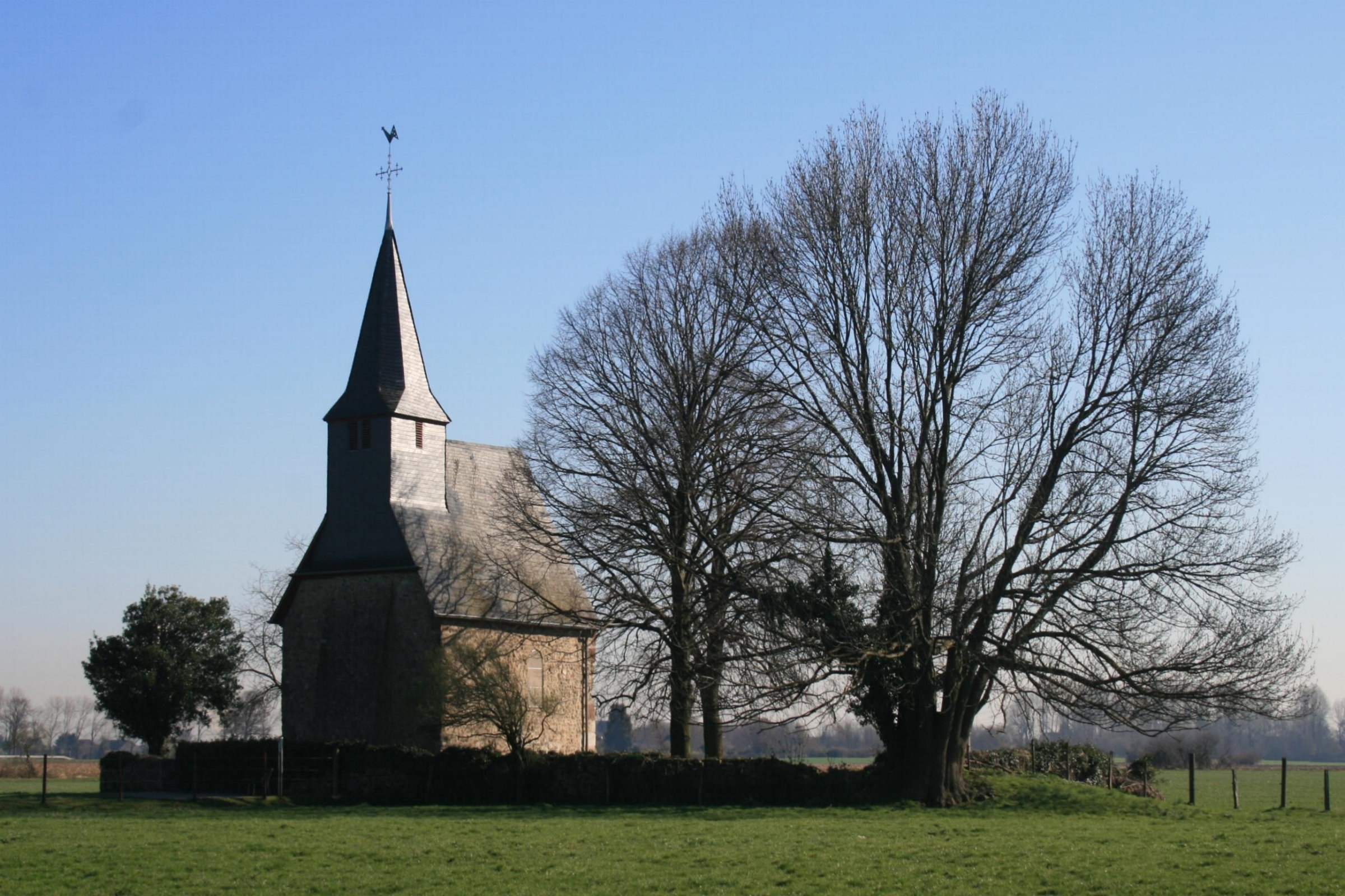 Cultural heritage monument No. 25 in Langerwehe